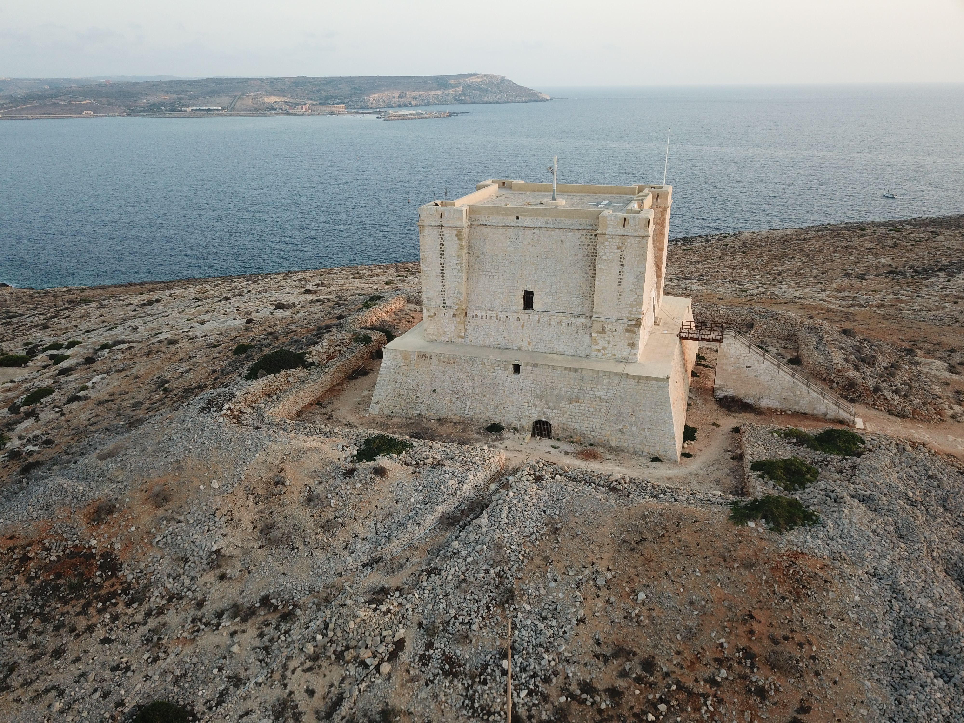 This media is about Maltese cultural property with inventory number ta Santa Marija.pdf It-Torri ta Santa Marija.